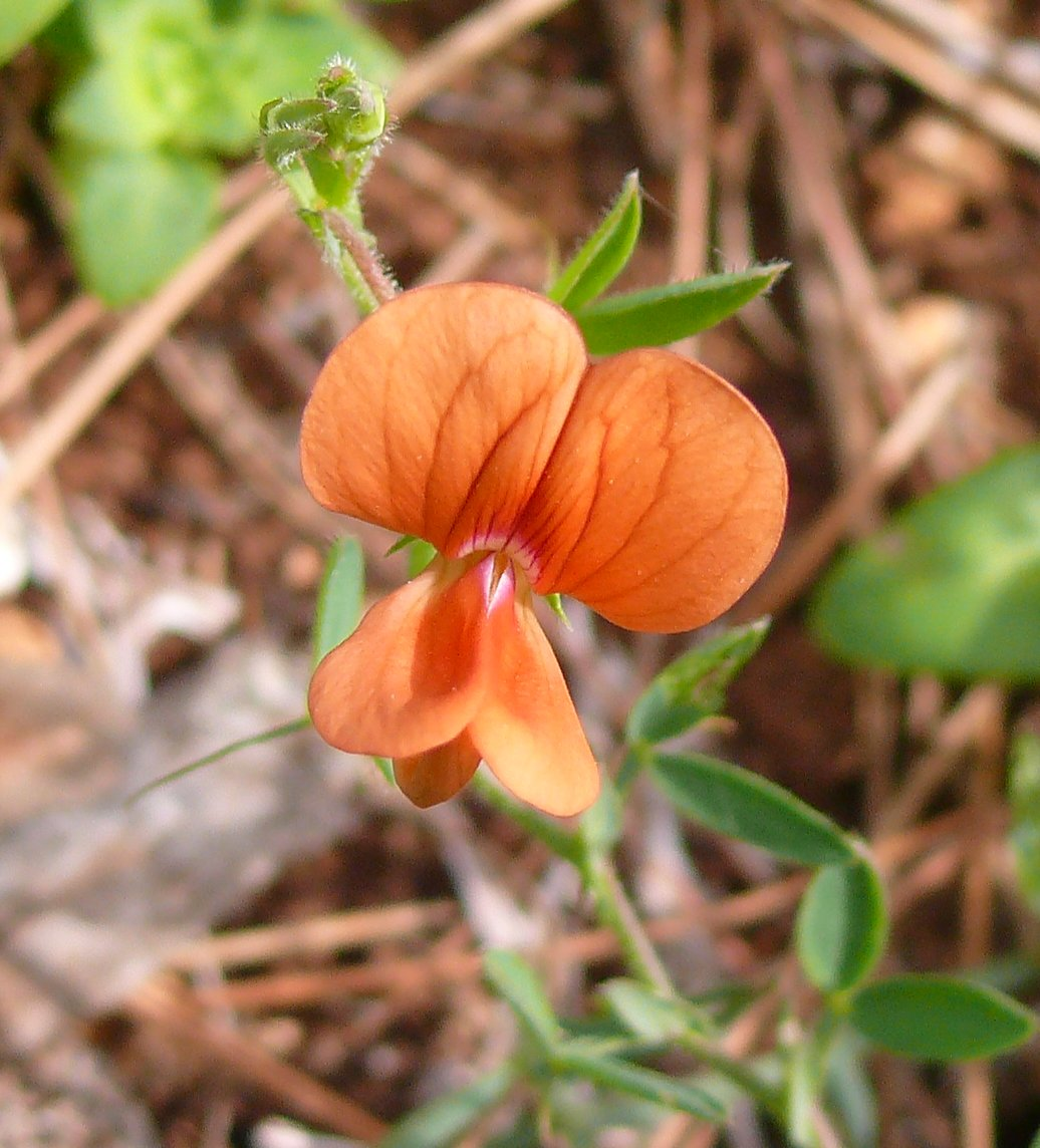 Lathyrus hierosolymitanus (from Jerusalem)